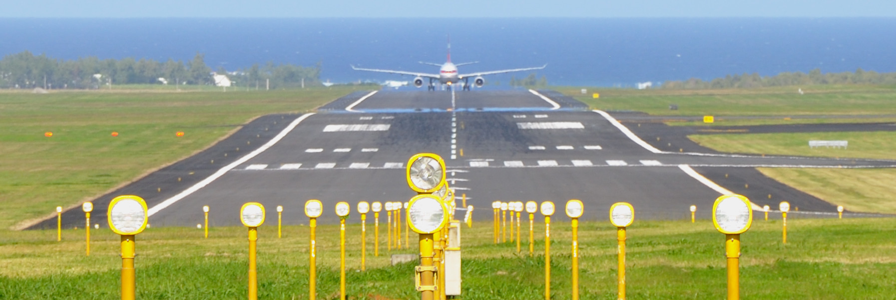 Mauritius, Air Mauritius A330 taxiing back to the terminal building after landing on runway 14 at Sir Seewosagur Ramgoolan International Airport